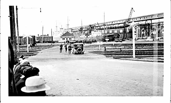 1930s May. Looking across railway crossing at foot of Heatley Street towards crowd of unemployed people gathered at Ballantyne Pier. Probably depicting the Battle of Ballantyne Pier.